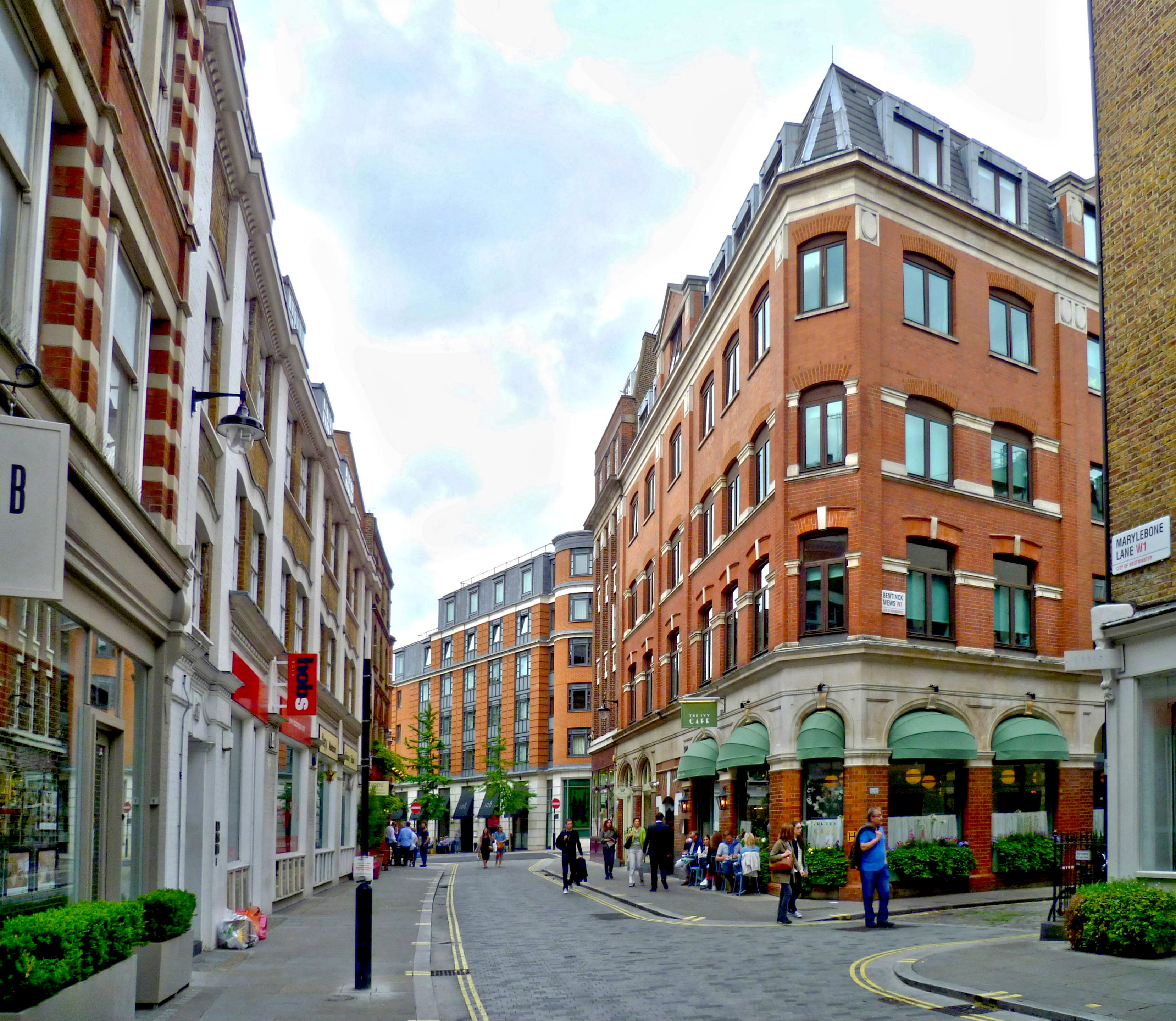 London